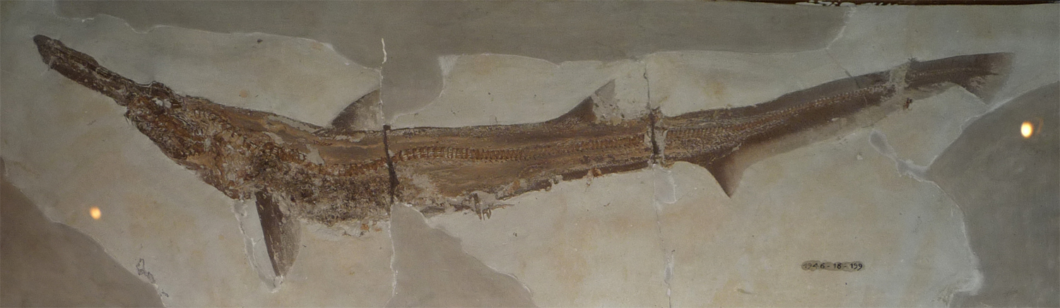 Scapanorhynchus lewisii from Sahel Alma (Liban) at cretaceous